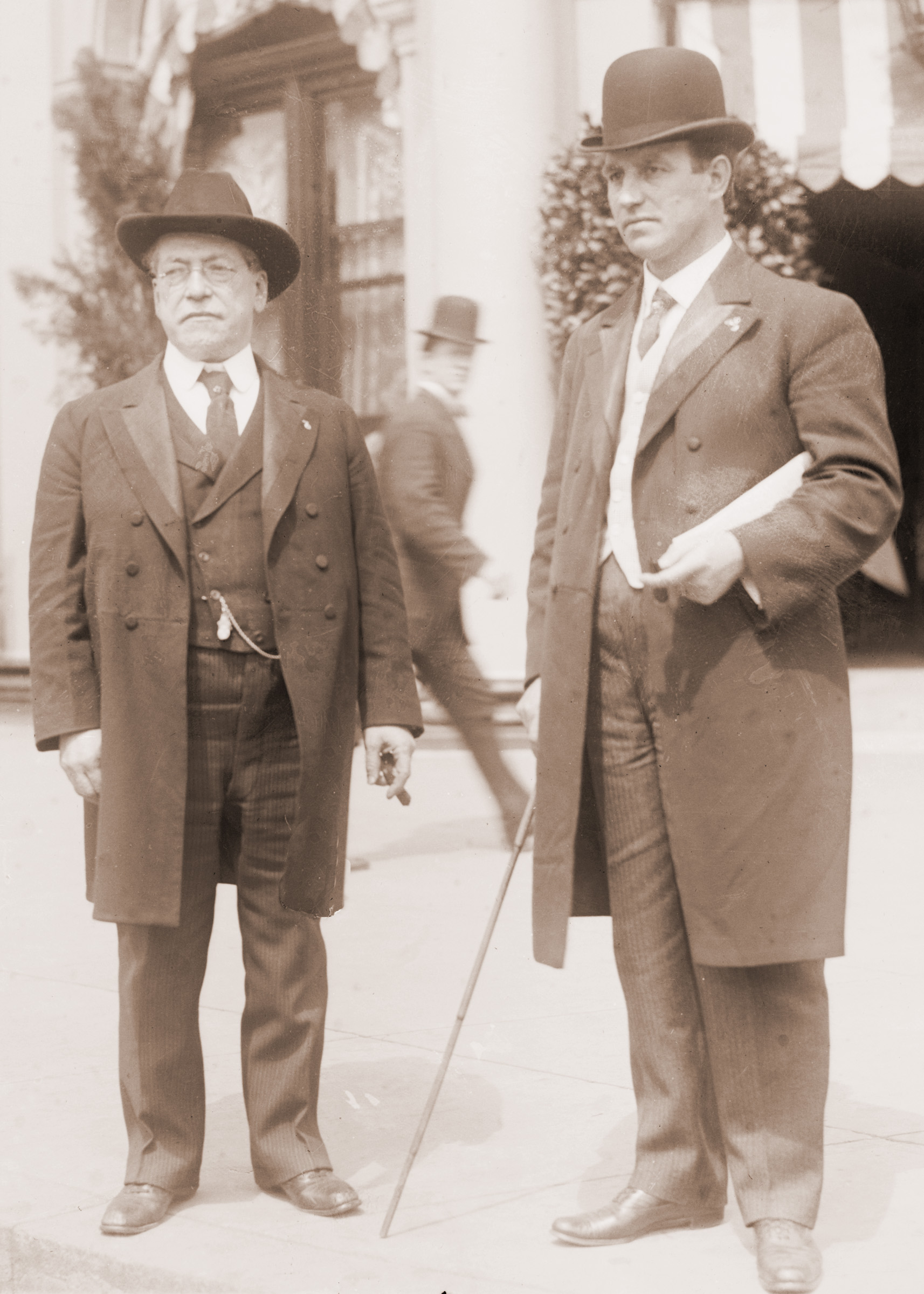 Samuel Gompers (American Federation of Labor) with John Mitchell (United Mine Workers).